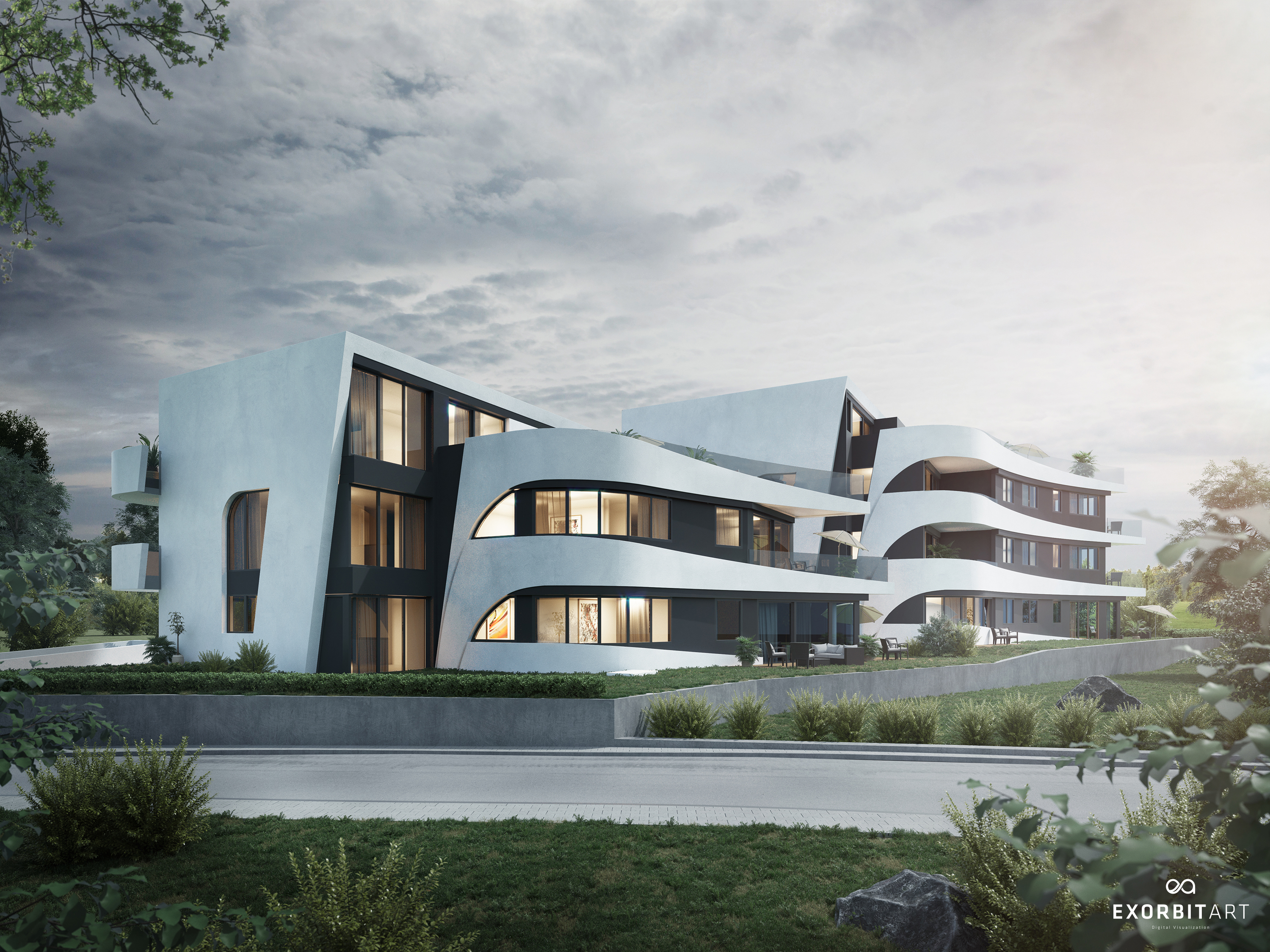 3d architectural visualization from the agency Exorbitart in Stuttgart.